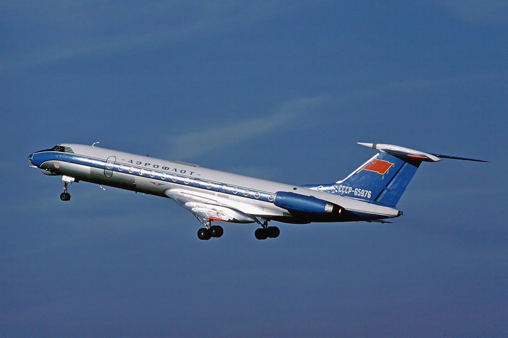 An Aeroflot Tupolev Tu-134A at Euroairport (LFSB)